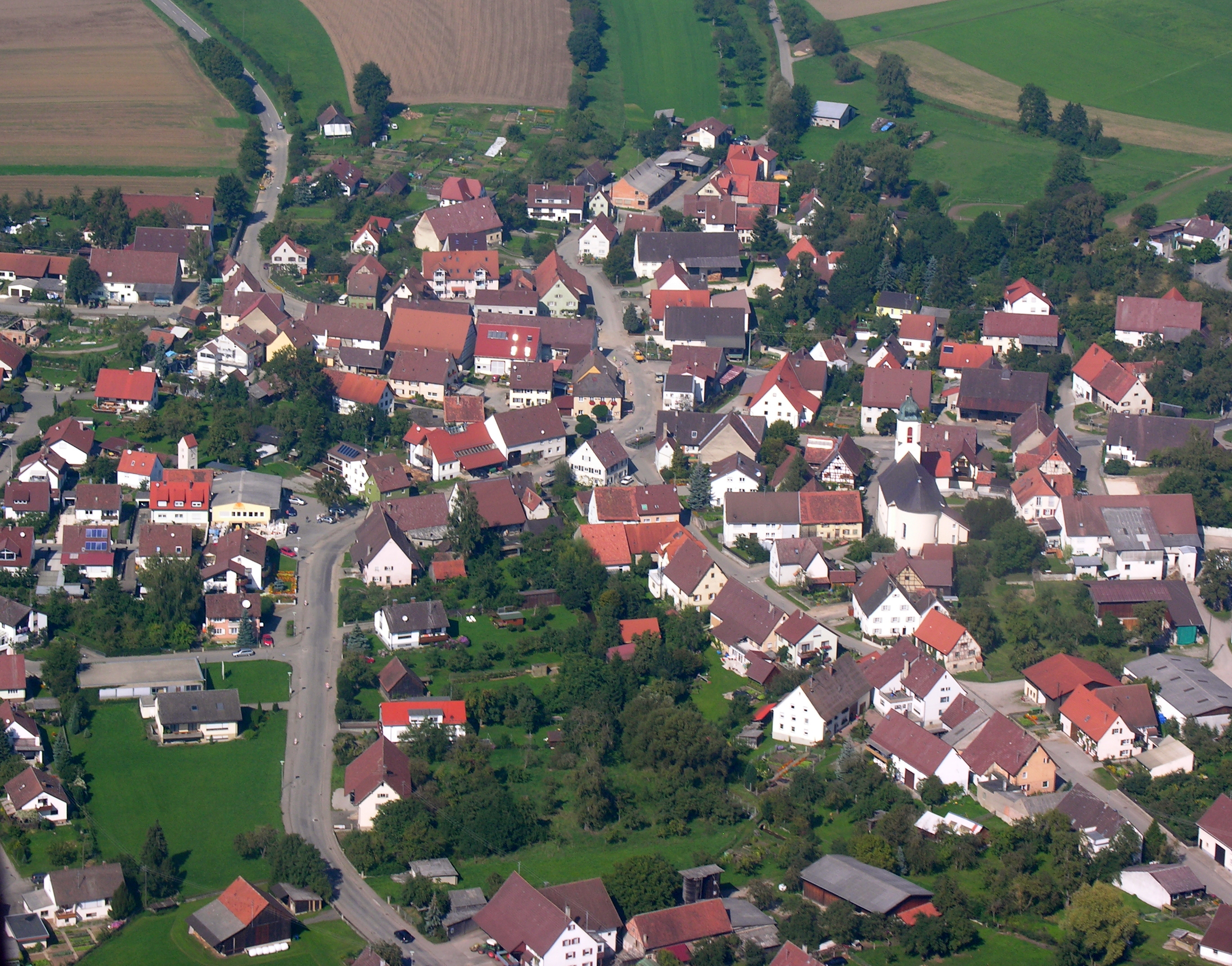 Germany, Baden-Württemberg, Aerial view of Blochingen